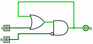 This is an RS flip flop implementation using only one feedback loop.